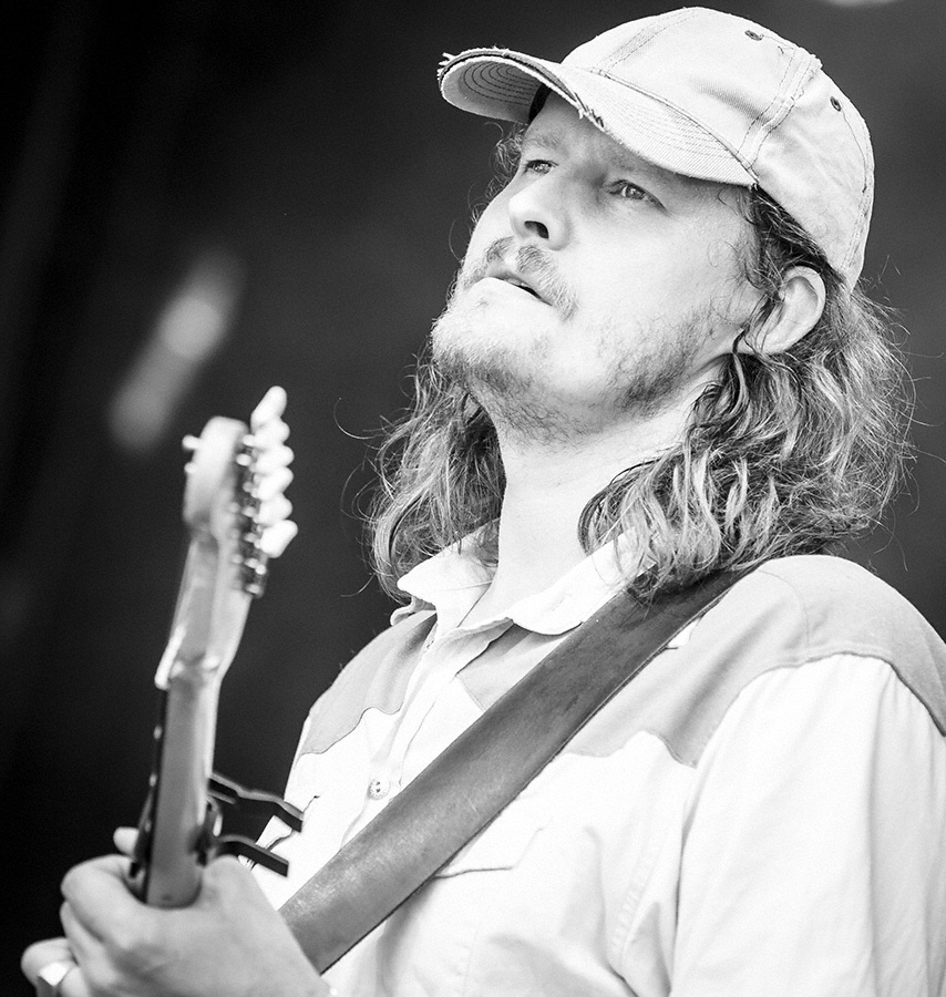 Daniel Norgren performs at Piknik i Parken in Oslo on 25. June 2016. Lineup:Daniel Norgren (guitar / vocal)